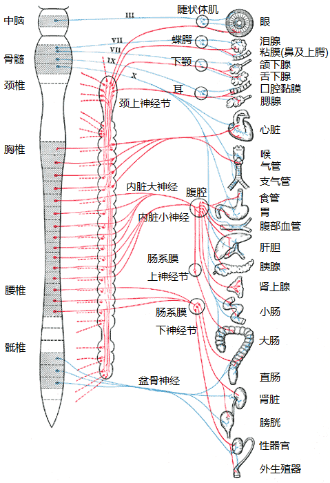 Sympathetic (red) and parasympathetic (blue) nervous system.